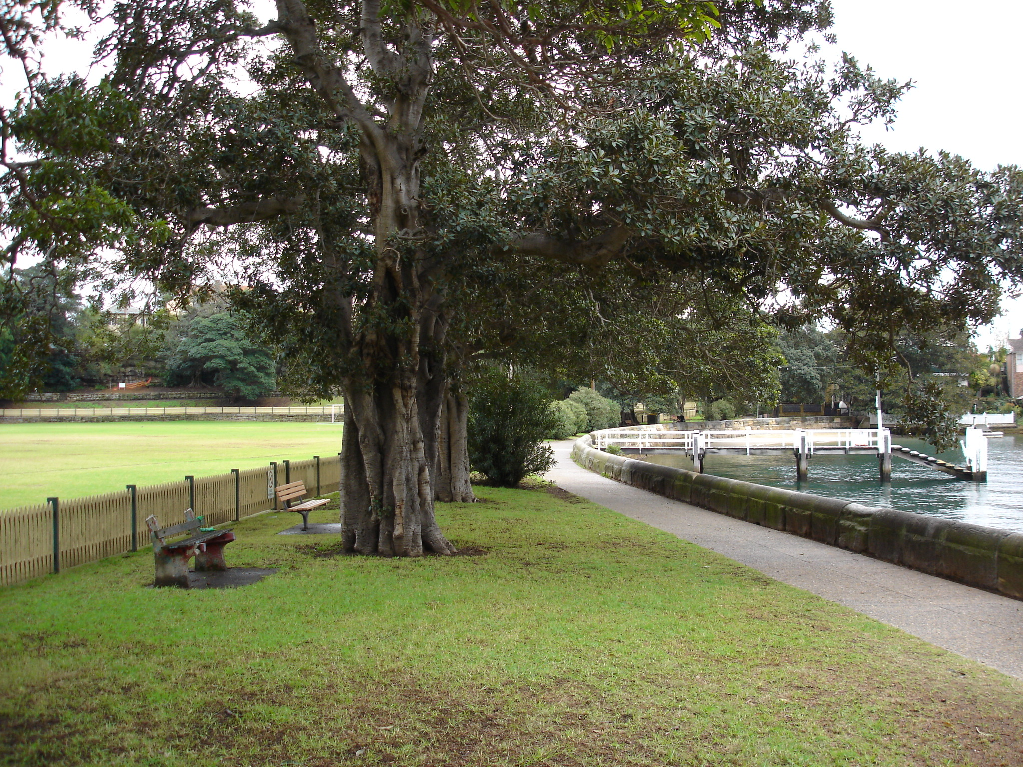 Snails Bay, Birchgrove, New South Wales, Australia